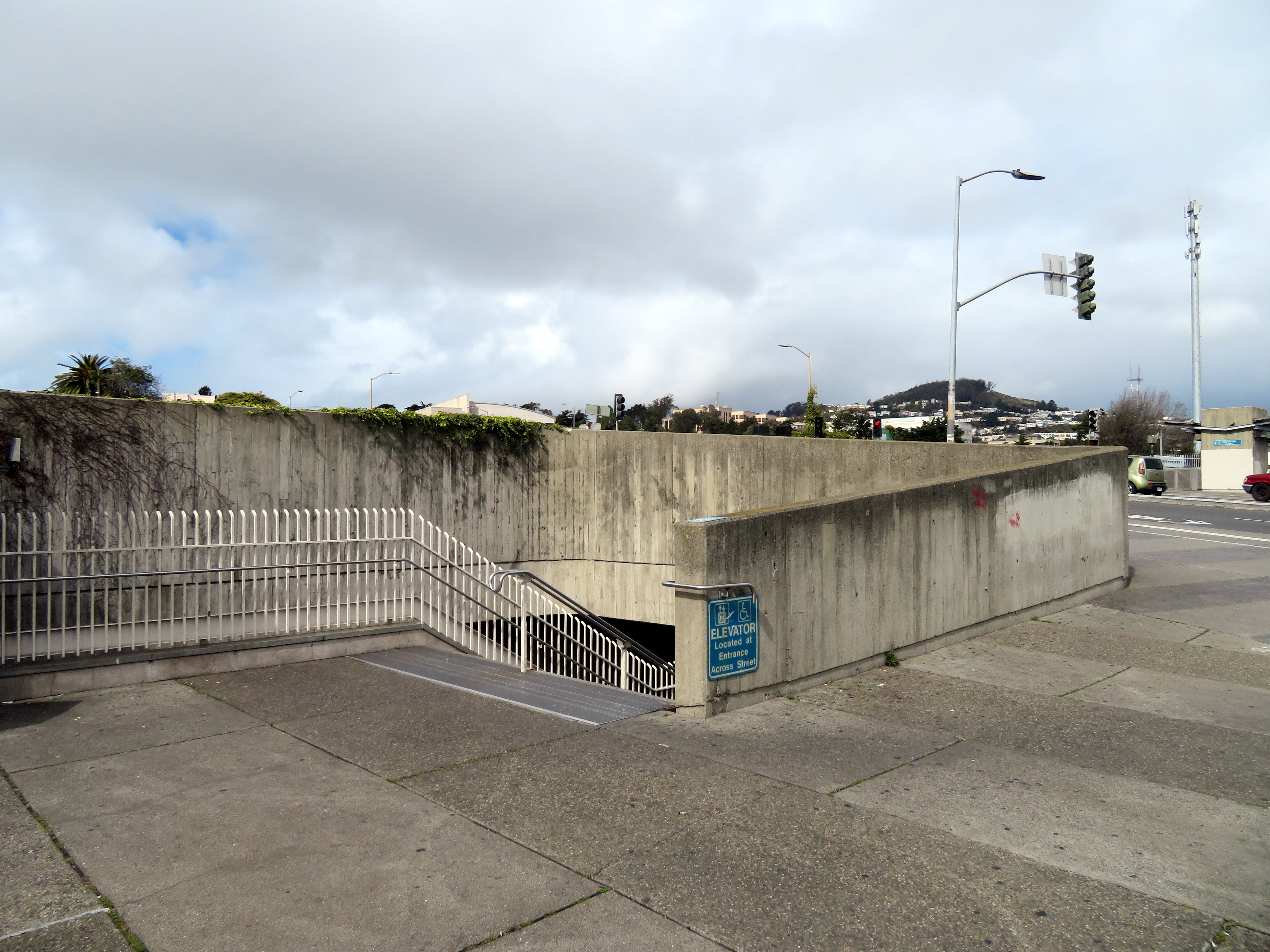 Entrance to Balboa Park station from the south side of Geneva Avenue in March 2018